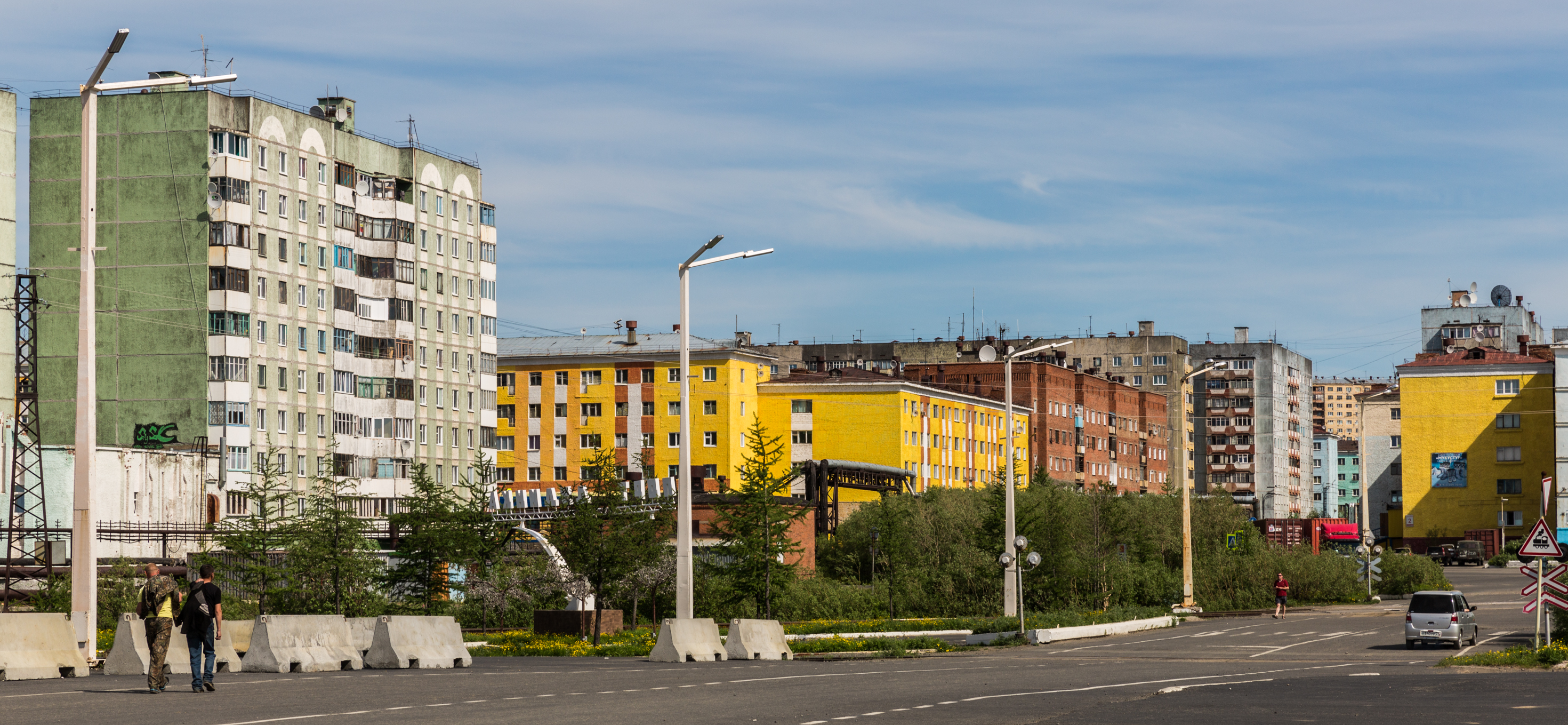 Veyernaya (hand fan) Street in Dudinka (railway crossing). On the left, the reverse side of the stele "Port Dudinka"